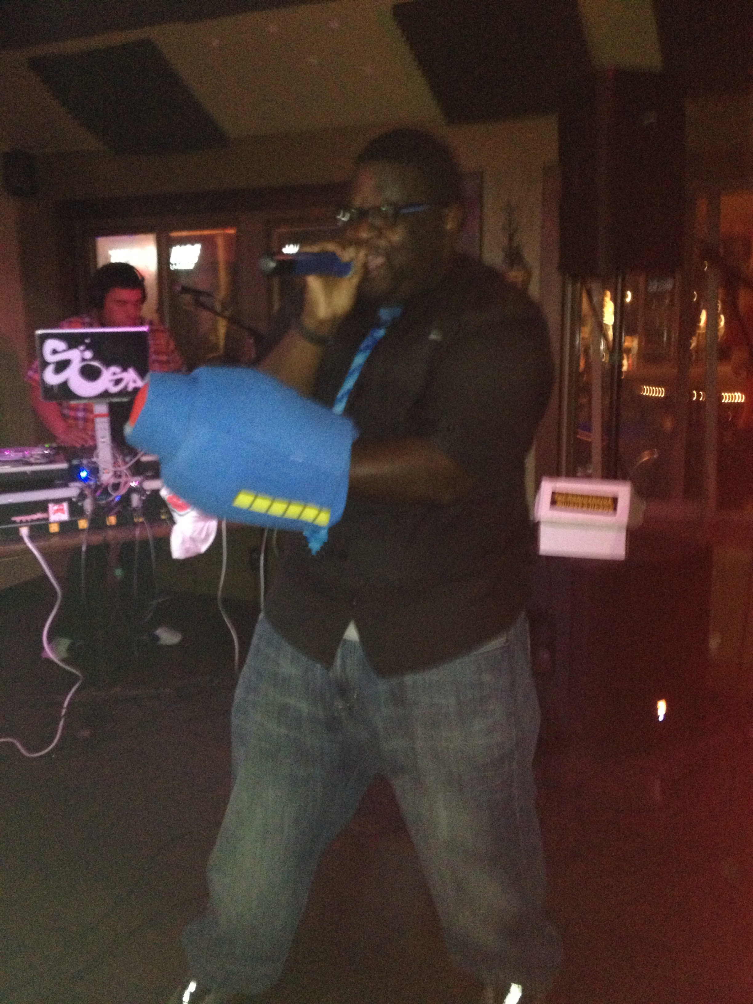 MegaRan at Sabbatical in Indianapolis (Dear Hunter Tour).